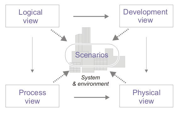 Global illustration of the 4+1 Architectural View Model